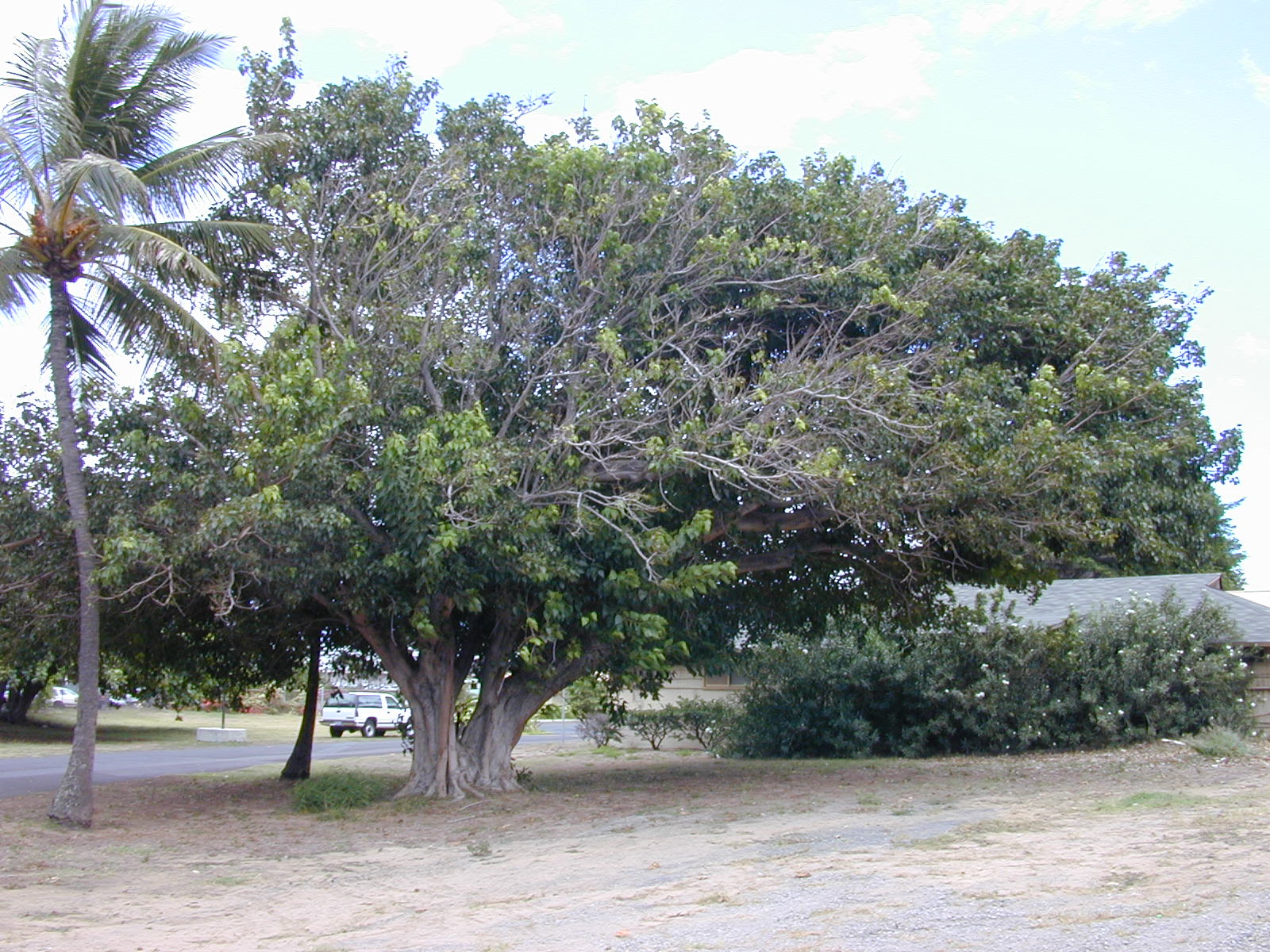 Ficus religiosa (habit). Location: Maui, MCC Kahului